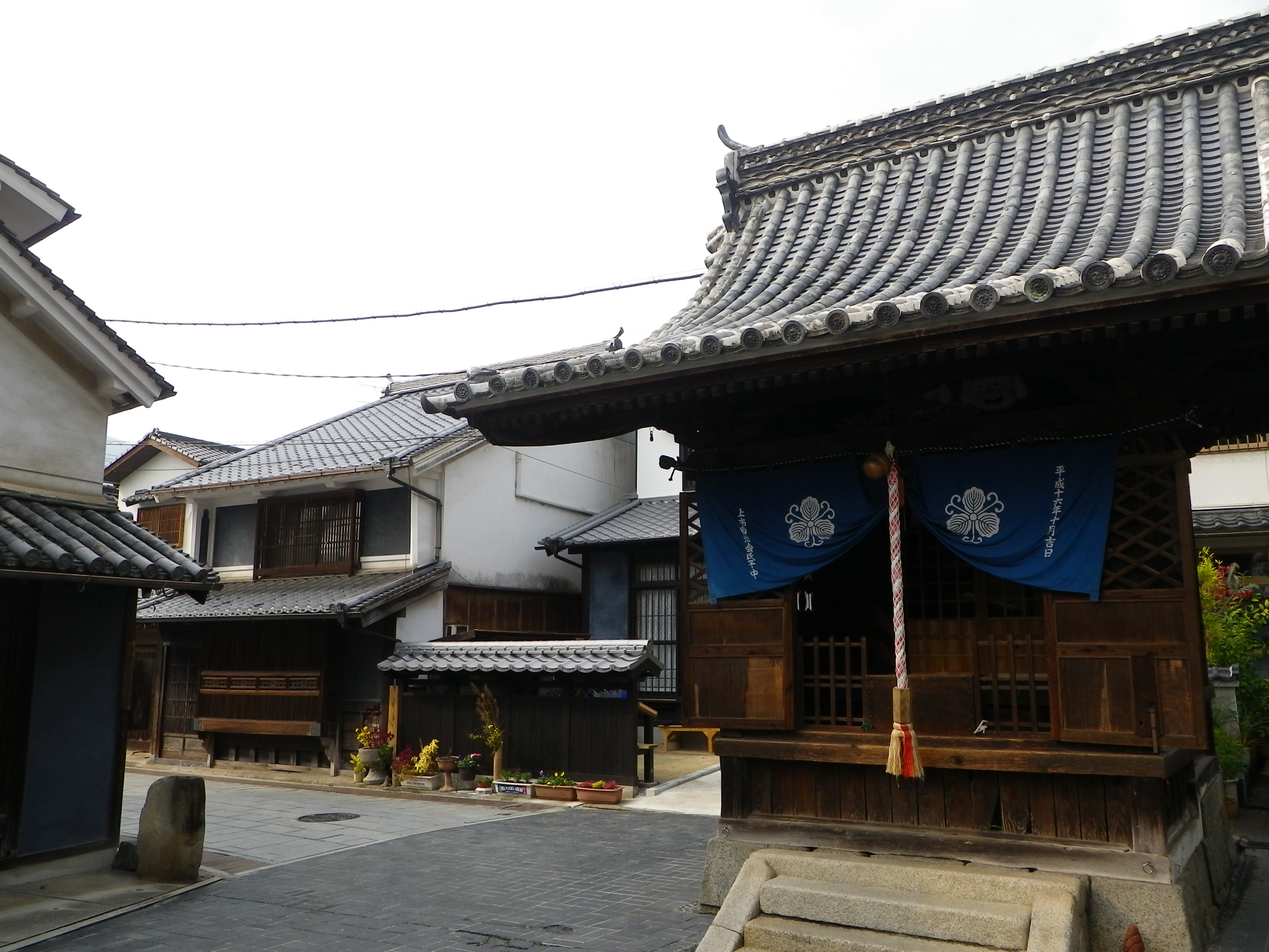 Ebisudo in Takehara